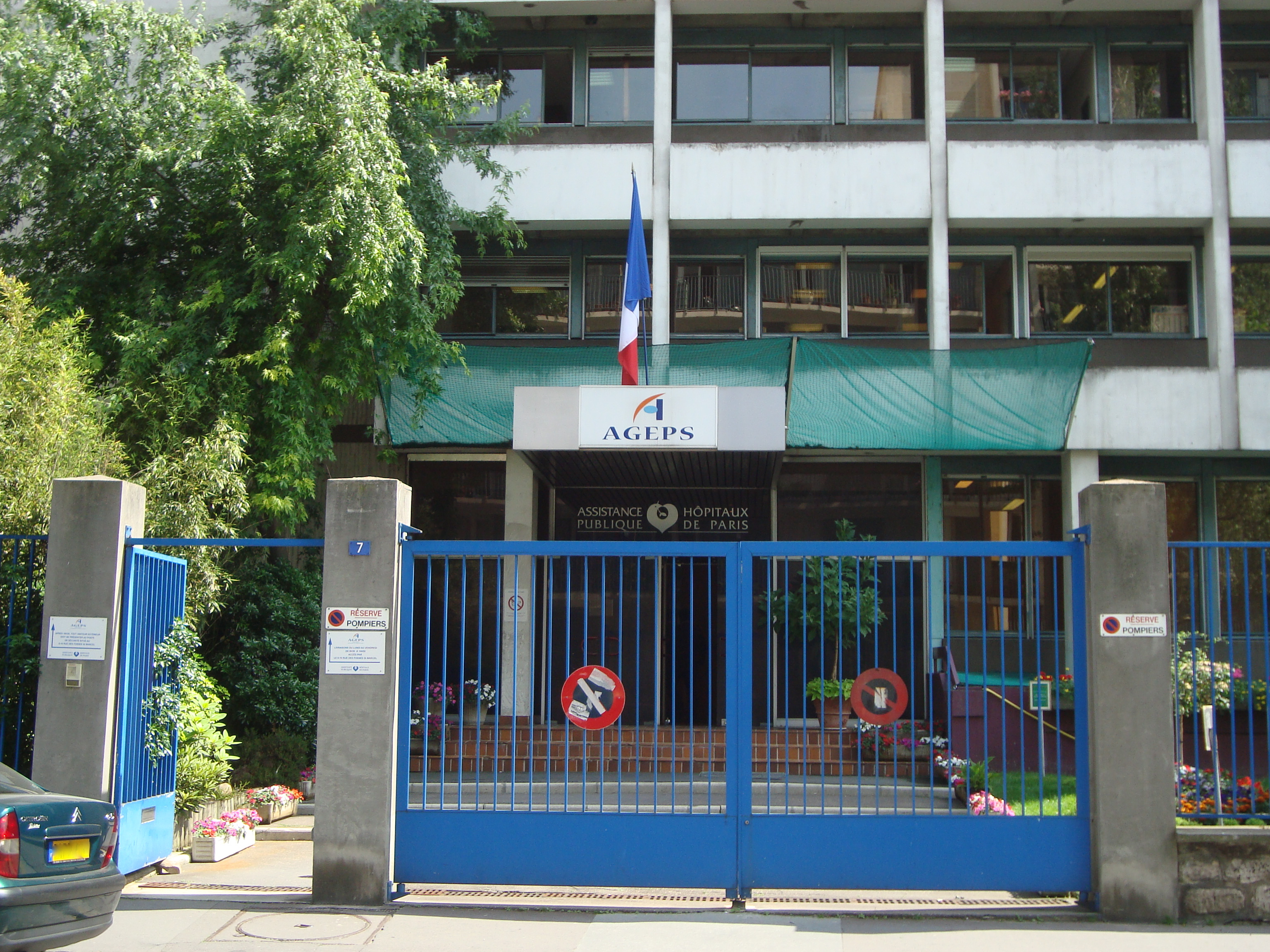 Entrance of the Agence générale des équipements et produits de santé, rue du Fer-à-Moulin in Paris